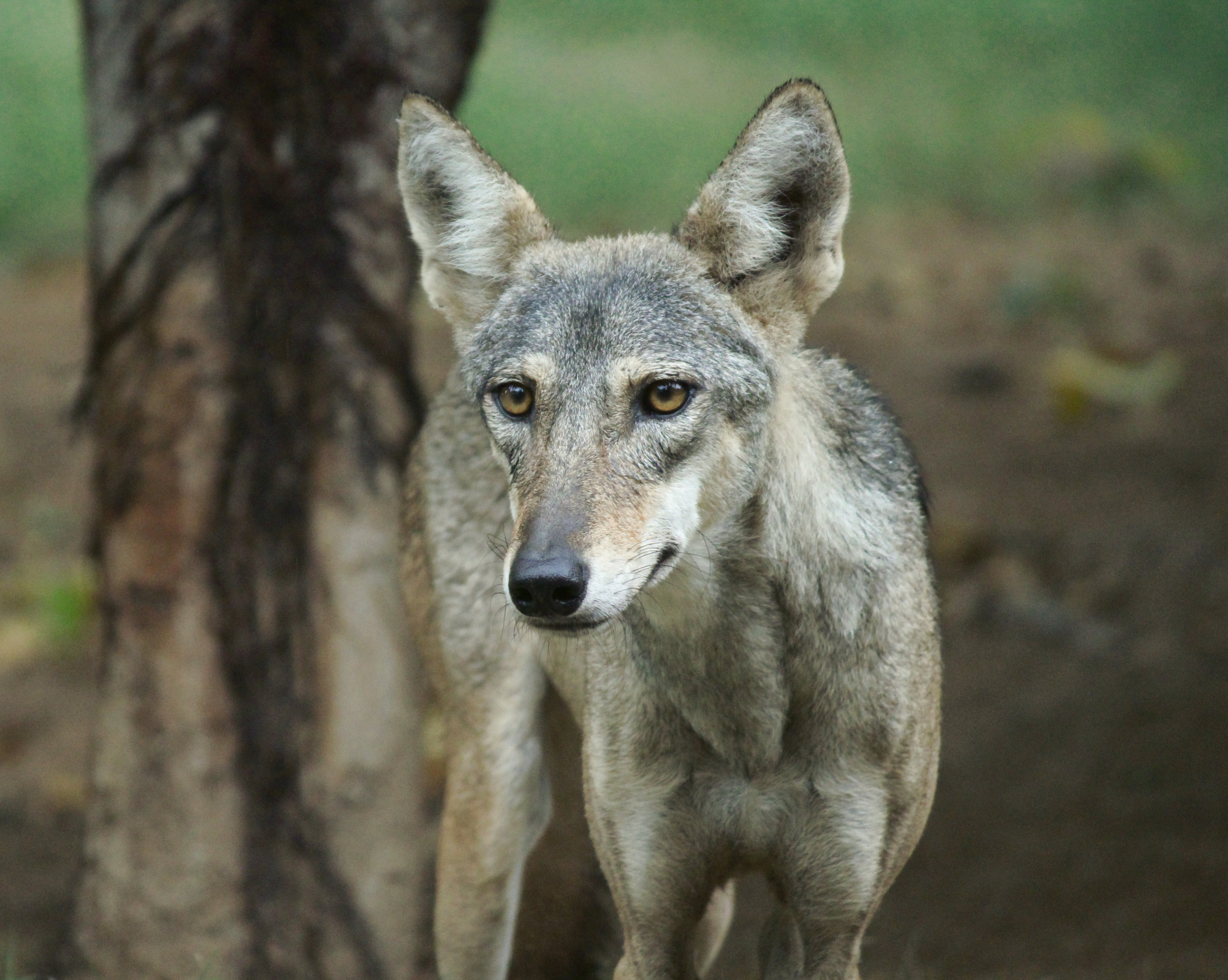 Side-striped Jackal